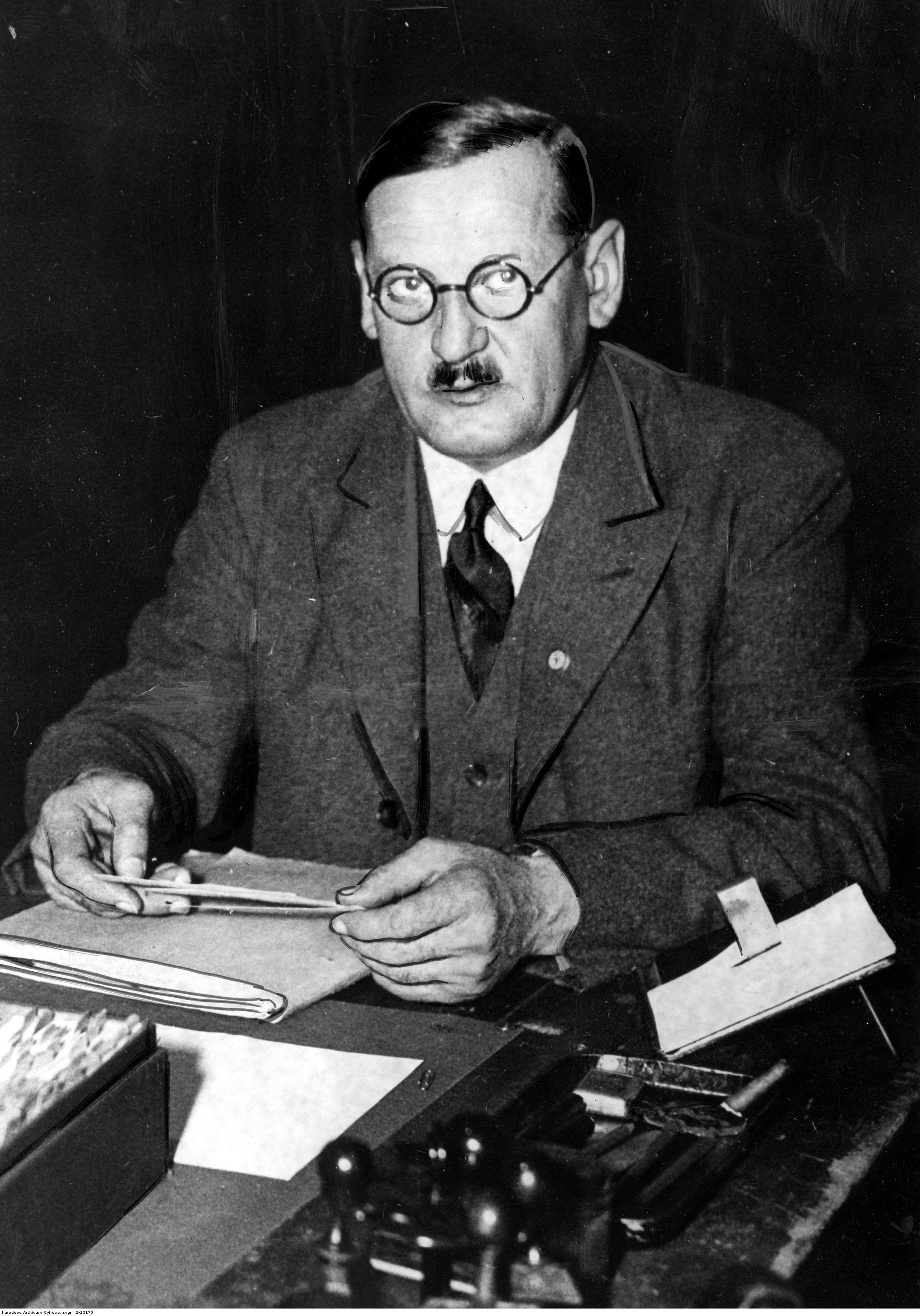 Anton Drexler. Situational photography.